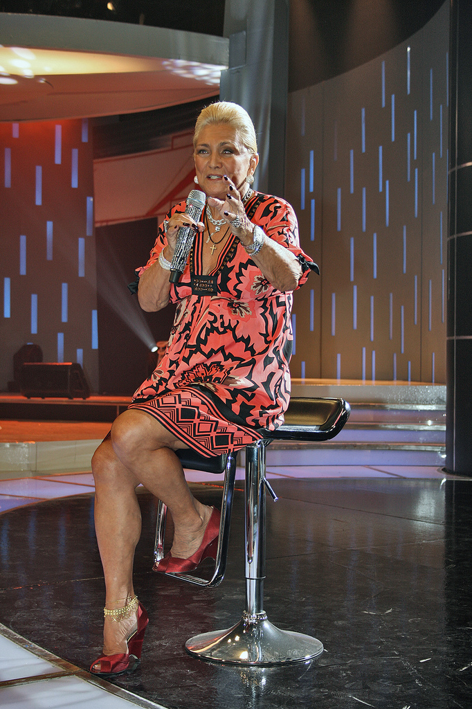 Brazilian television presenter Hebe Camargo